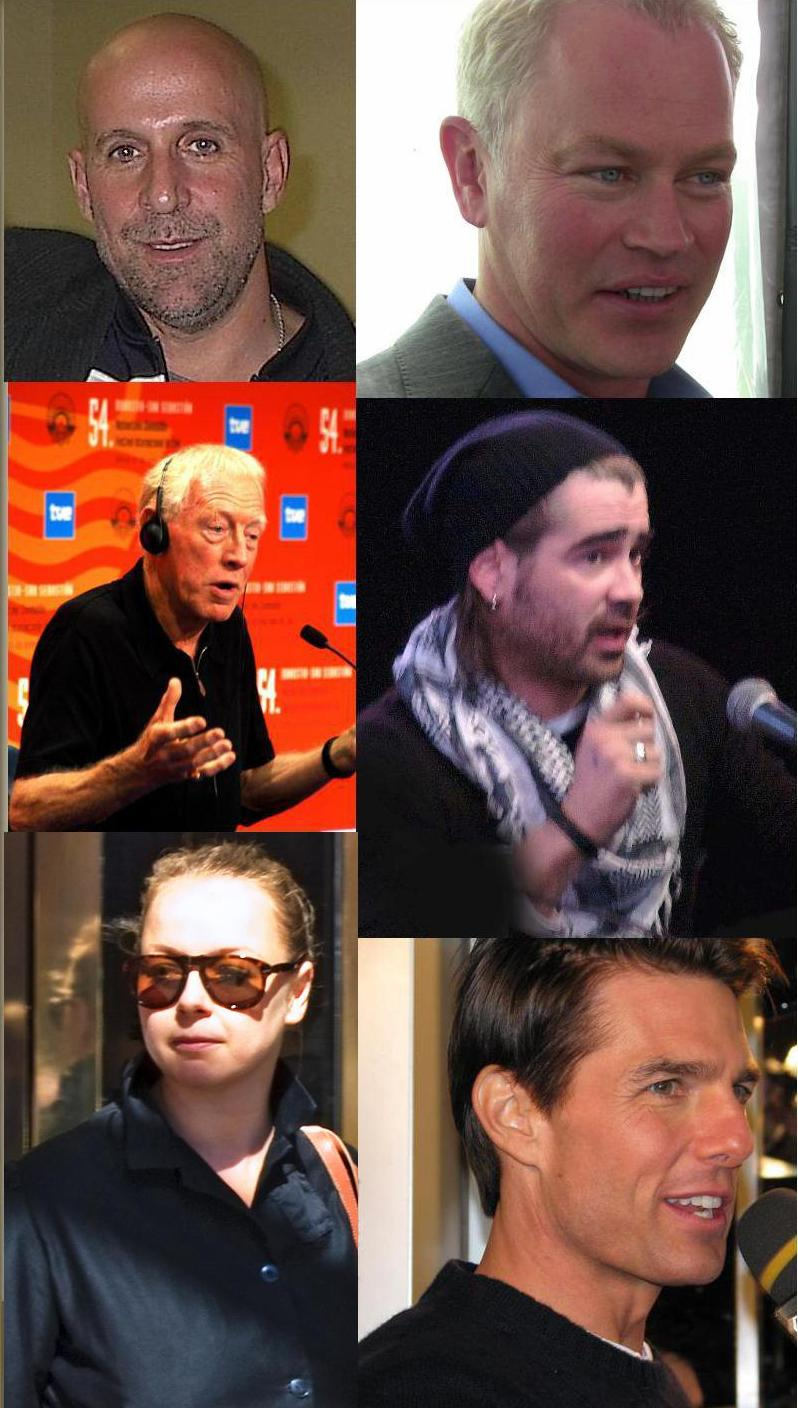 A collage of other Commons images.